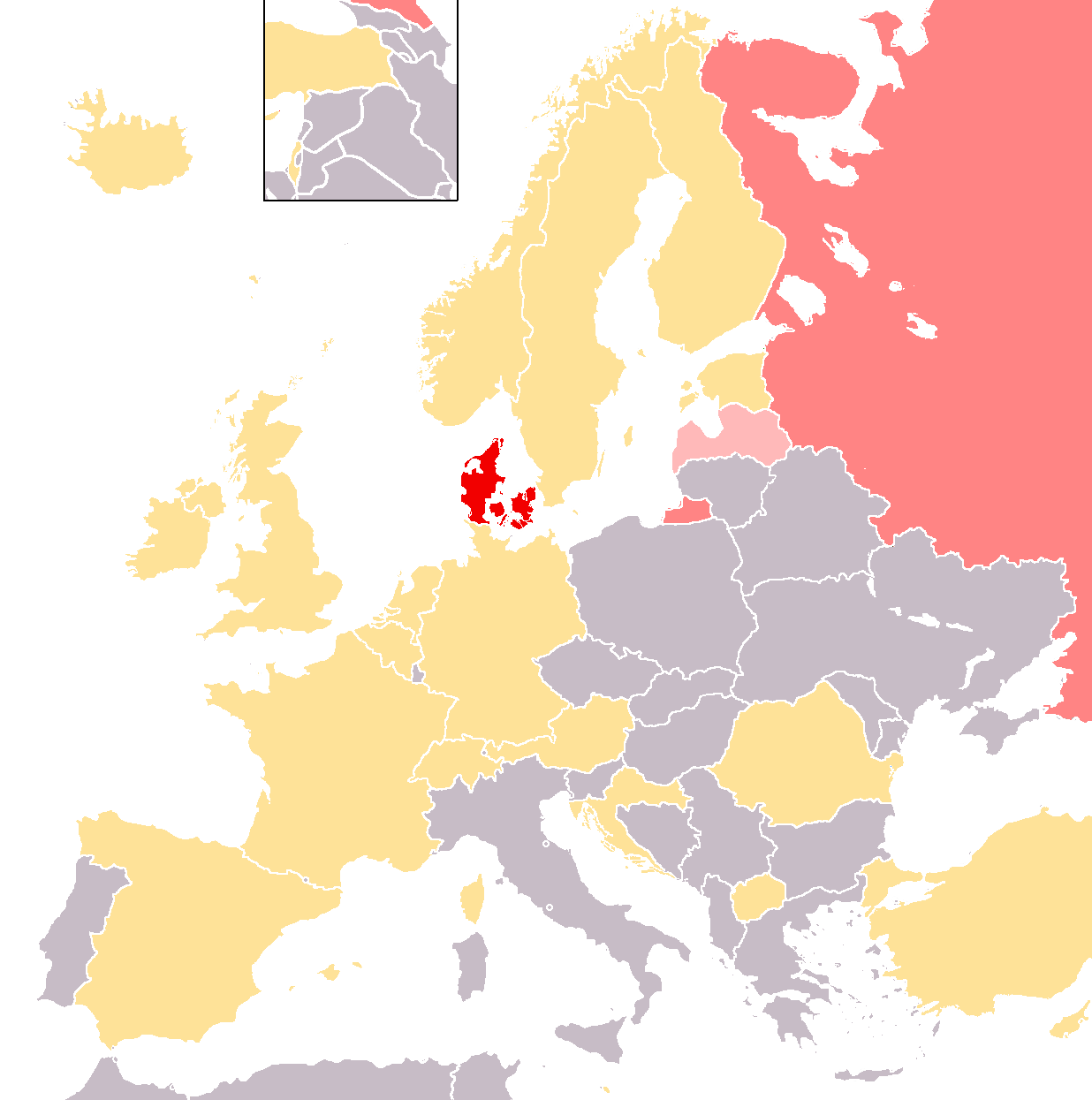 Map of Eurovision 2000